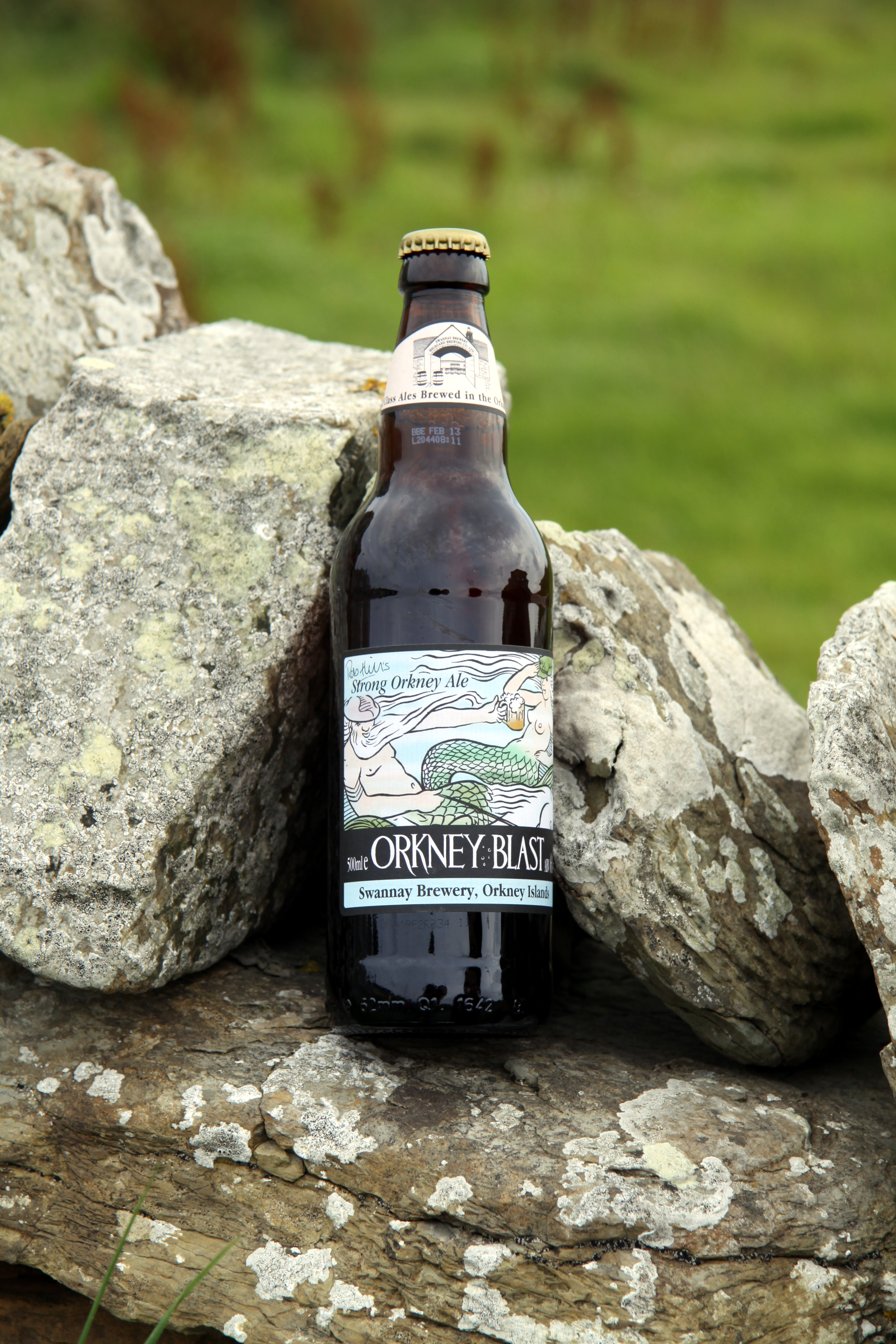 Bottle of Orkney Blast beer brewered on Orkney, Scotland, United Kingdom